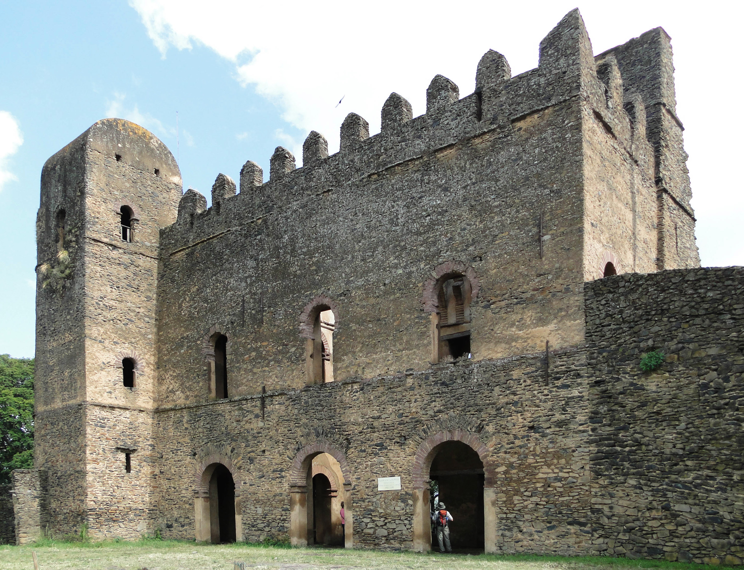 Iyasu's Palace in the Fasil Ghebbi, Gondar, Ethiopia